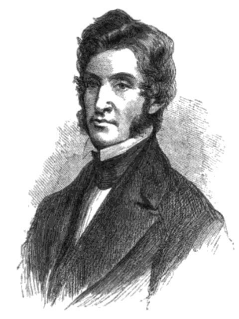 Portrait of Charles Ellet, Jr. (1810–62)